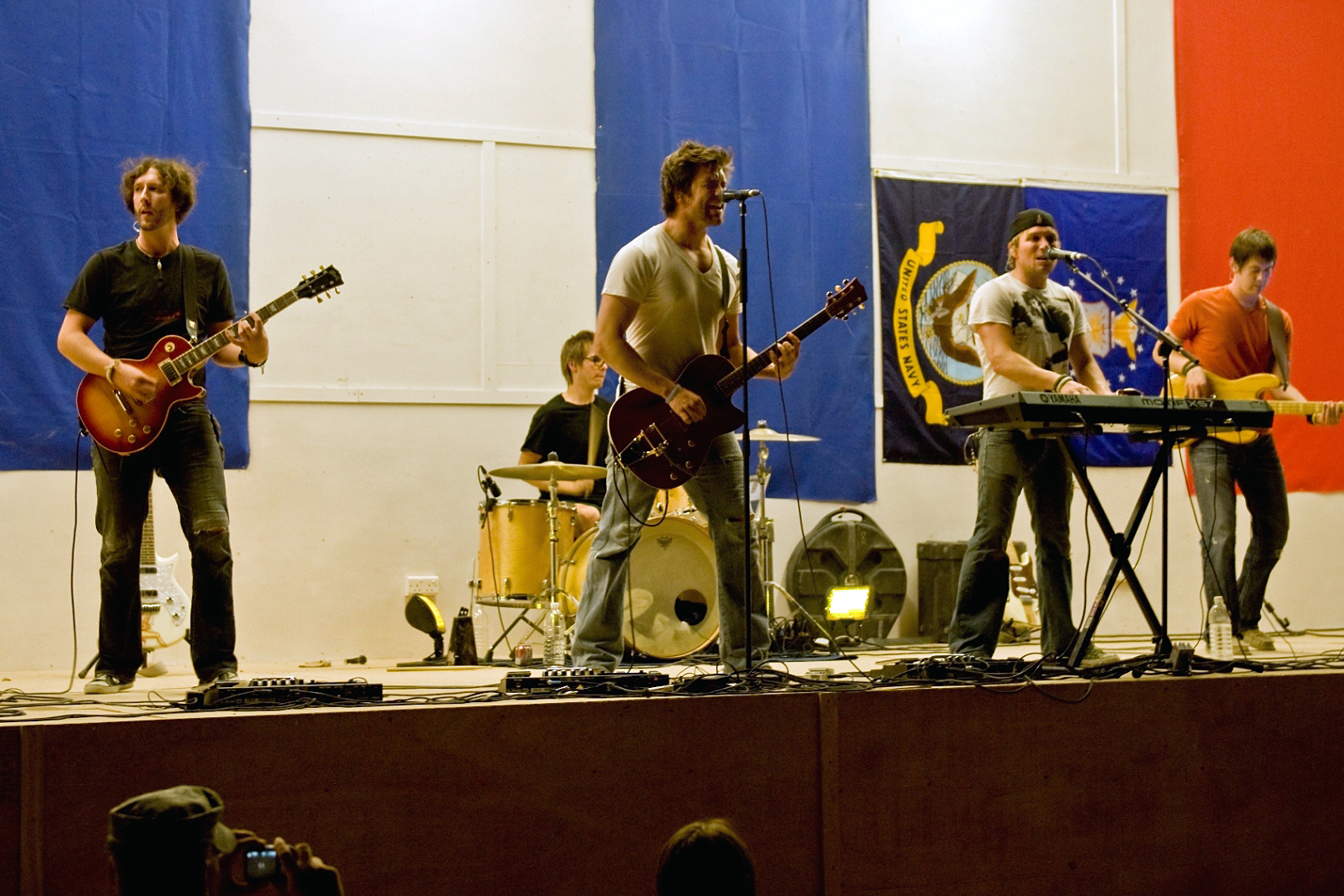 Members of the band Catchpenny perform during a Memorial Day celebration on Contingency Operating Base, Basra, Iraq, May 25, 2009. U.S. Army photo by Pfc. Tyler Maulding